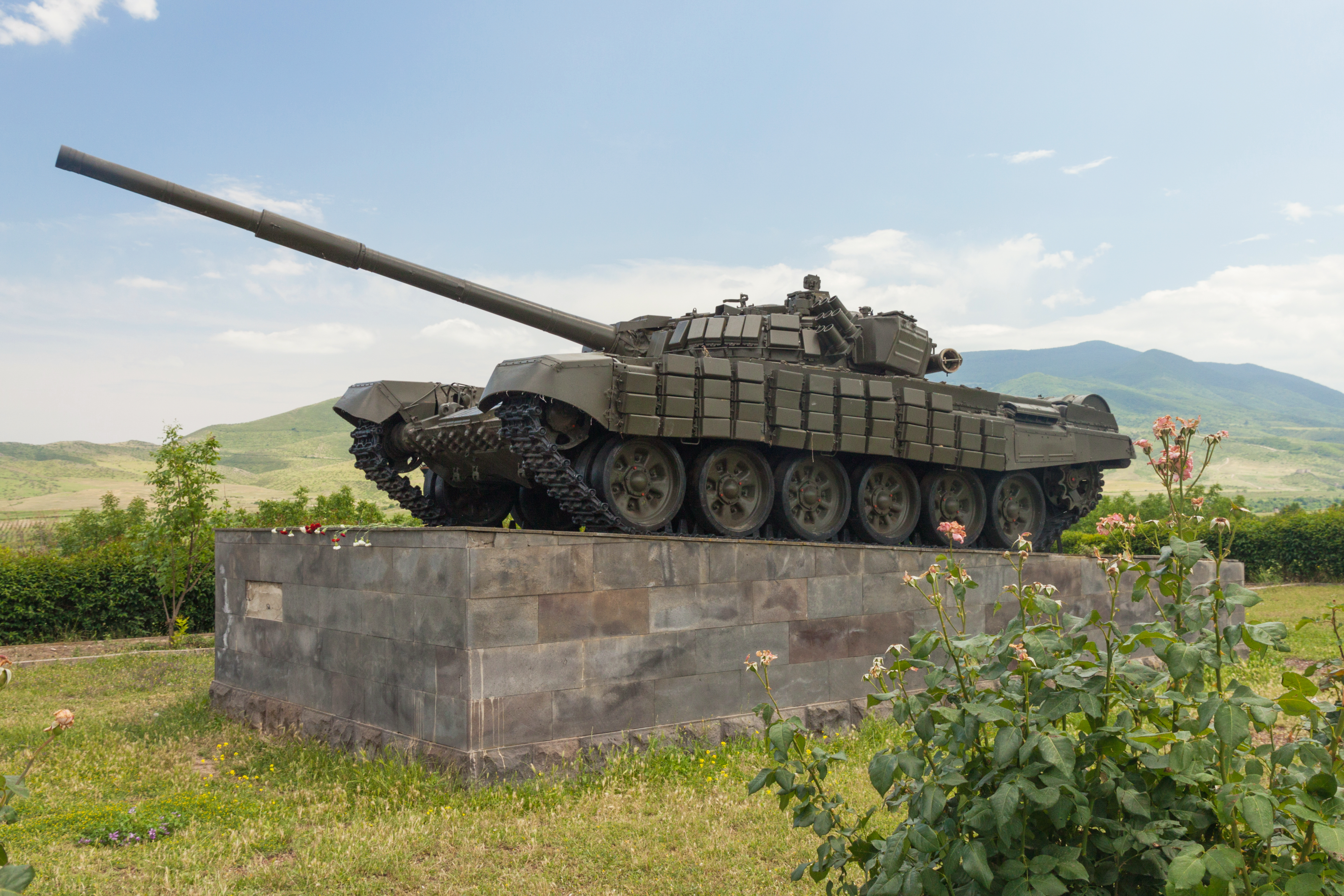 T-72. Stepanakert/Xankəndi, Nagorno-Karabakh.